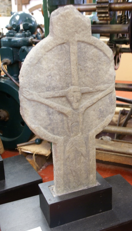 Kilchoman Old Parish Church, Kilchoman, Islay, Argyll and Bute, Scotland. Cross, kept in Museum of Islay Life in Port Charlotte. Graham no. 53.